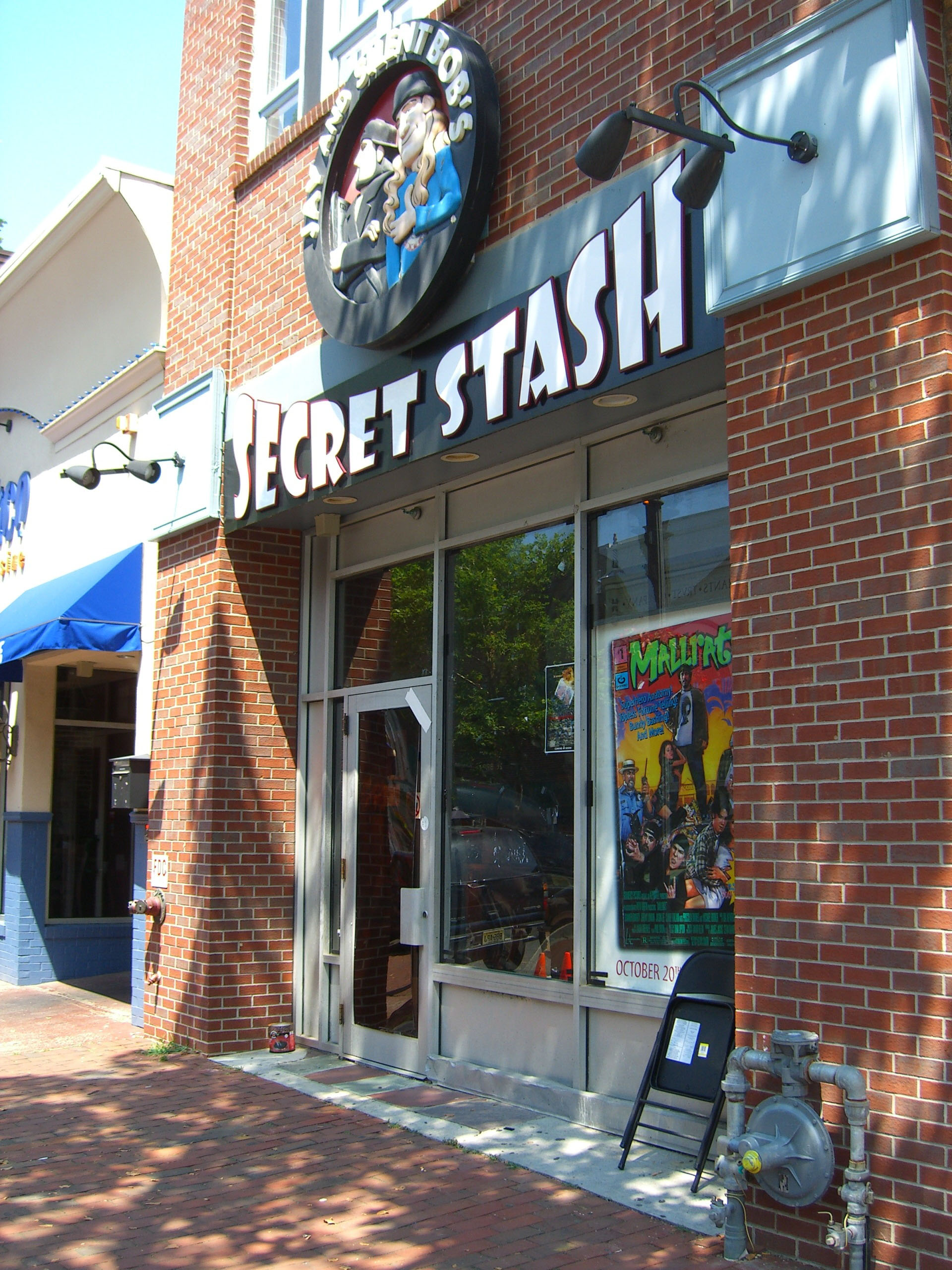 Jay and Silent Bob's Secret Stash, a comic book store in Red Bank, New Jersey owned by filmmaker Kevin Smith, as seen on the morning of July 9, 2012, the first day of filming of Season 2 of the reality television series Comic Book Men, which is set at the store. Note the tinted plexiglass panels fitted over the door and windows to block out sunlight, and the folded chair, which is provided for the guest cast members whose transactions with the store staff are filmed for episode segments. This photo was created by Luigi Novi. It is not in the public domain, and use of this file outside of the licensing terms is a copyright violation.